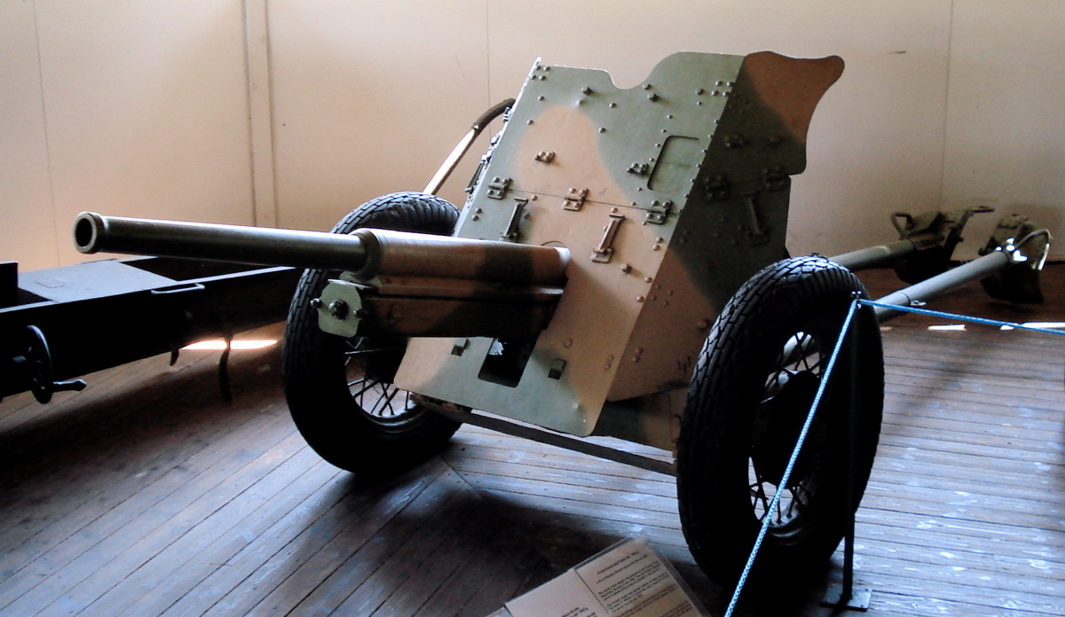 Soviet 45 mm M1932 anti-tank gun, displayed in Parola Museum. It is not clear whether this is the correct designation for this gun. The museum caption for it is shown here. Source: Photo by me, User:Balcer.